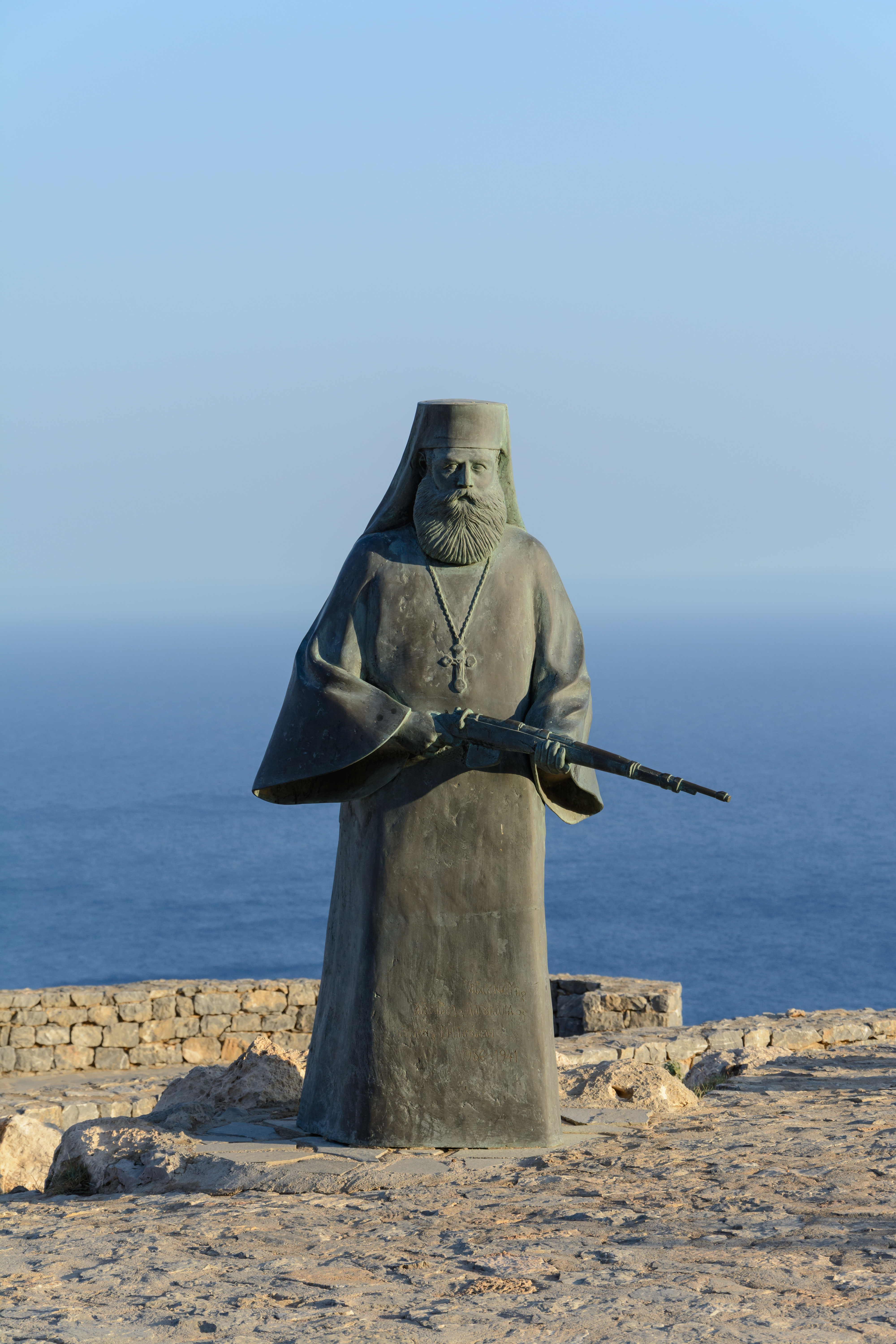 Memorial of Preveli for Resistance and Peace - the armed statue of Abbot Agathangelos Lagouvardos commemorate the resistance of the monks of Moni Preveli against the German occupation in WW2